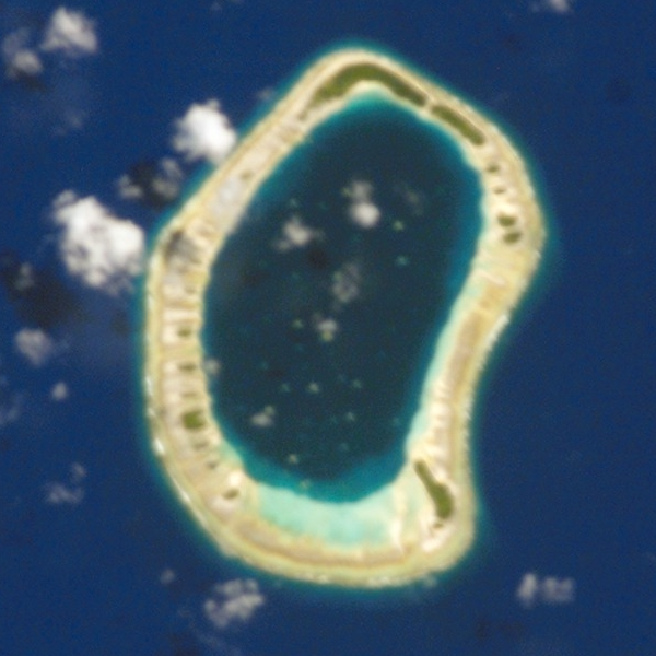 NASA astronaut image of Morane Atoll (Tuamotu Archipelago, French Polynesia) in the Pacific Ocean